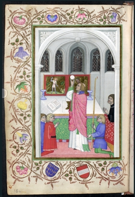 Prayer book for Duke Albrecht V of Austria Page 18v: Portrayal of the Holy Mass with Duke Albrecht V., who prays to the left of the priest. The tendril border shows the coat of arms of Lower Austria on the lower left and the Bindenschild on the right. Codex Vindobonensis Palatinus 2722